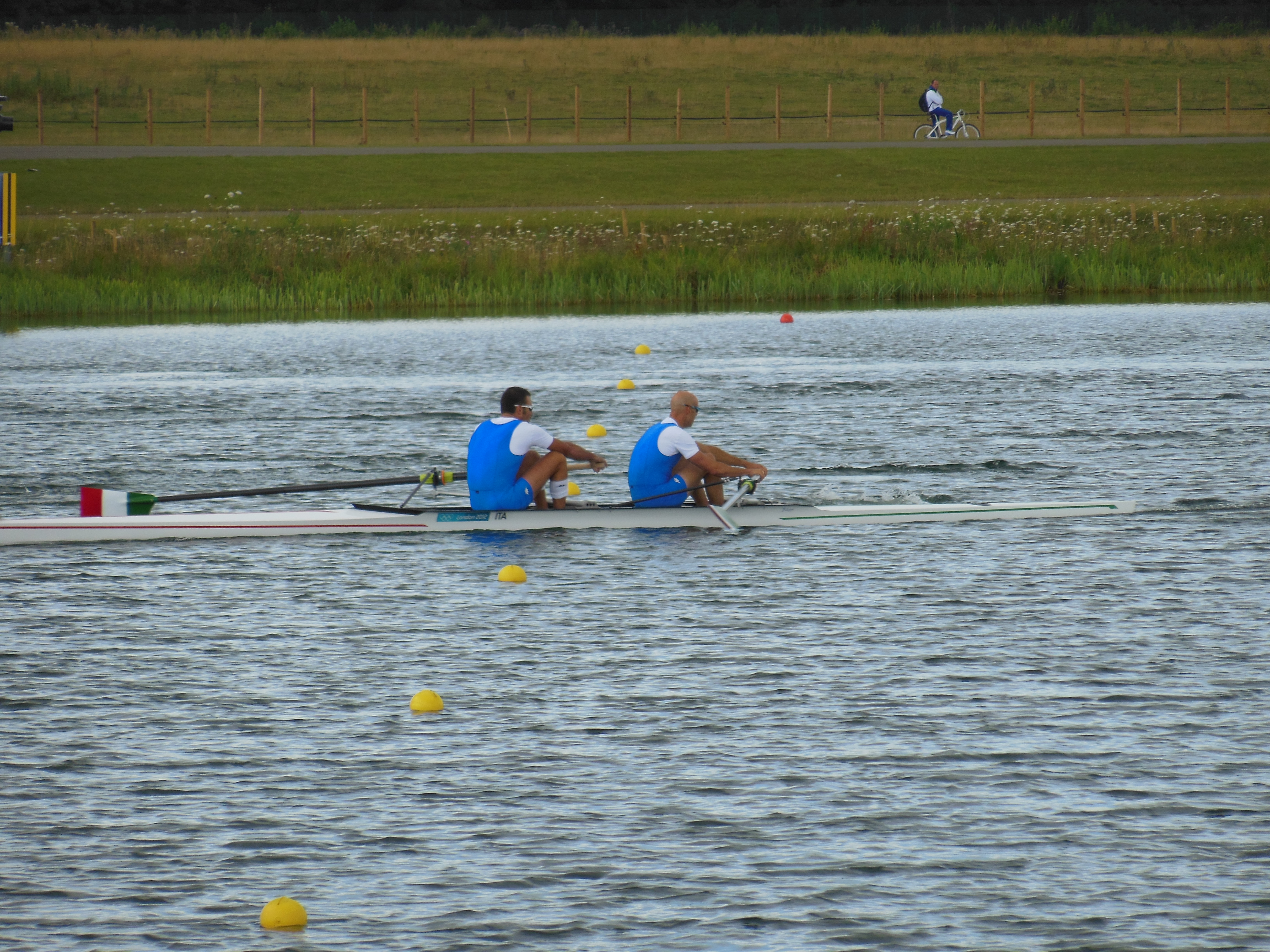 01 ! Eric Murray Hamish Bond New Zealand 6:16.65 02 ! Germain Chardin Dorian Mortelette France 6:21.11 03 ! George Nash William Satch Great Britain 6:21.77 4 Niccolo Mornati Lorenzo Carboncini Italy 6:26.17 5 James Marburg Brodie Buckland Australia 6:29.28 6 David Calder Scott Frandsen Canada 6:30.49